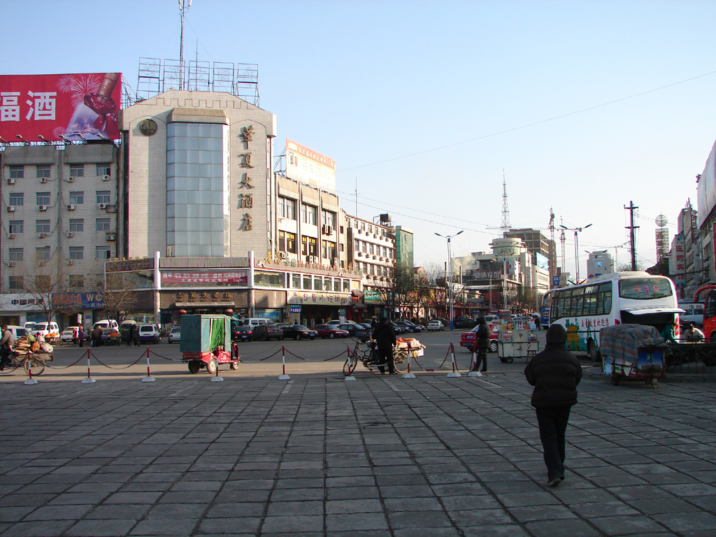 This is what Yuncheng looks like from the train station. Just watch out for those beggars.